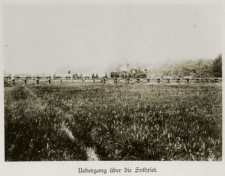 Germany railroads militarymaneuvers Crossing of the Sothriet River